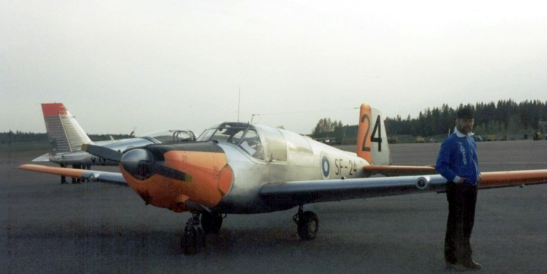 Saab 91 Safir of Finnish Air Force at Tampere-Pirkkala Airport (EFTP).